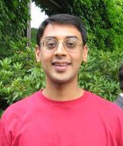 Manjul Bhargava at Oberwolfach, July 2005.